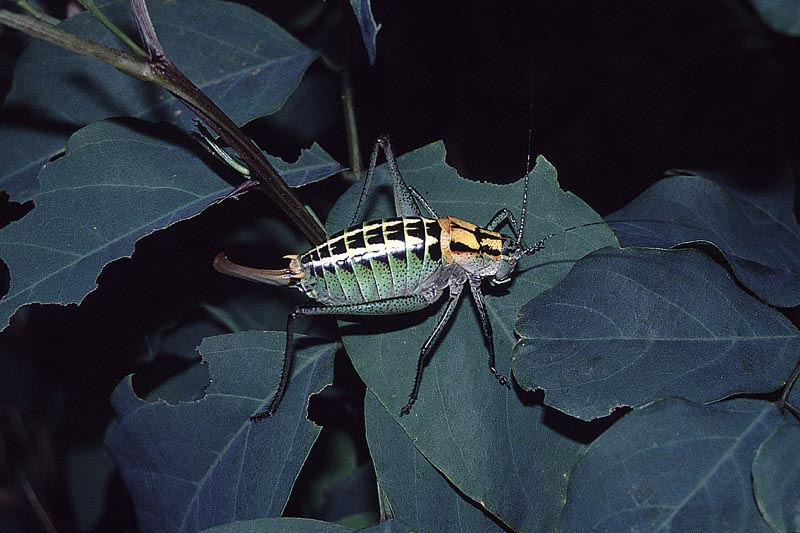 Poecilimon oranatus female, Osp, Slovenia. Author: Blaž Šegula Typicall colour distribution in warmer, litoral habitats (as opposition to mountain habitats, where colour is predominantly green)